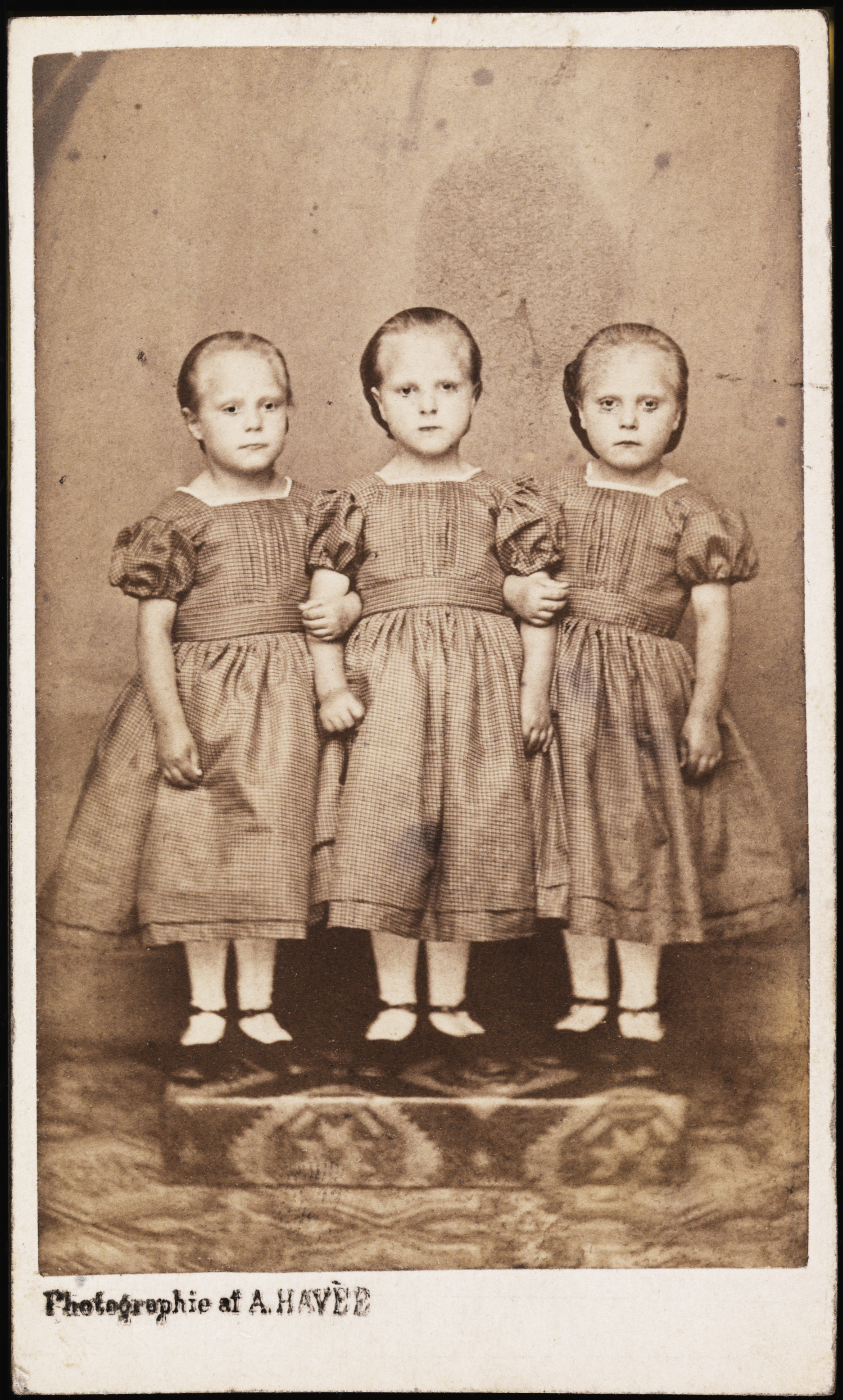 Motiv / Motif: Visittkort / Carte de visite Fotograf / Photographer: Auguste Havée (?-1880) Sted / Place: Oslo Eier / Owner Institution: Nasjonalbiblioteket / National Library of Norway Lenke / Link: Bildesignatur / Image Number: bldsa_FA0222